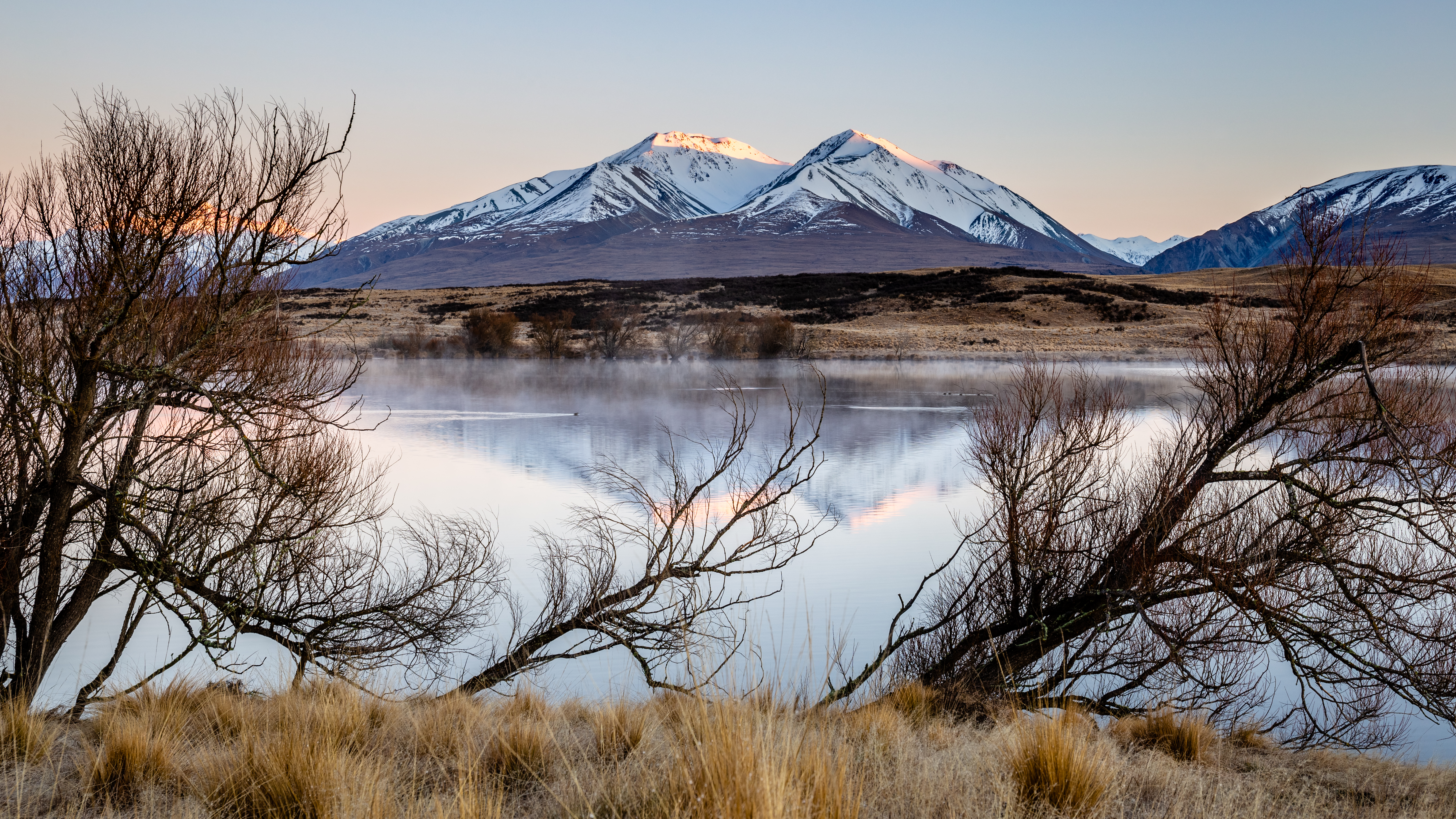 Lake Clearwater with snowy Mt Potts (2184m) in the background. Canterbury, New Zealand